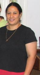 Sawsan Gabra Ayoub Khalil, head of the Center for Intercultural Dialogue and Translation